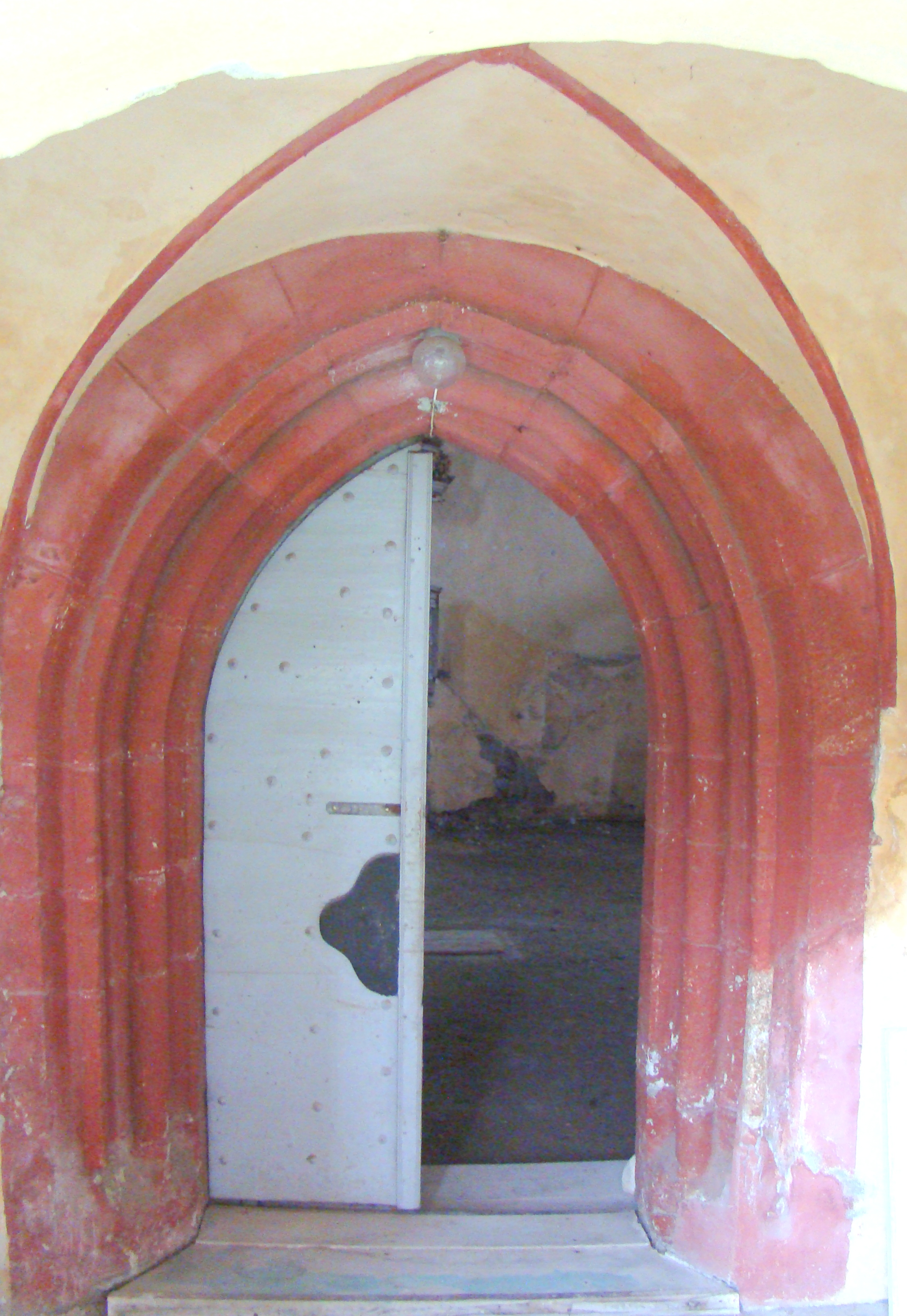 Lutheran church in Rupea, Braşov County, Romania